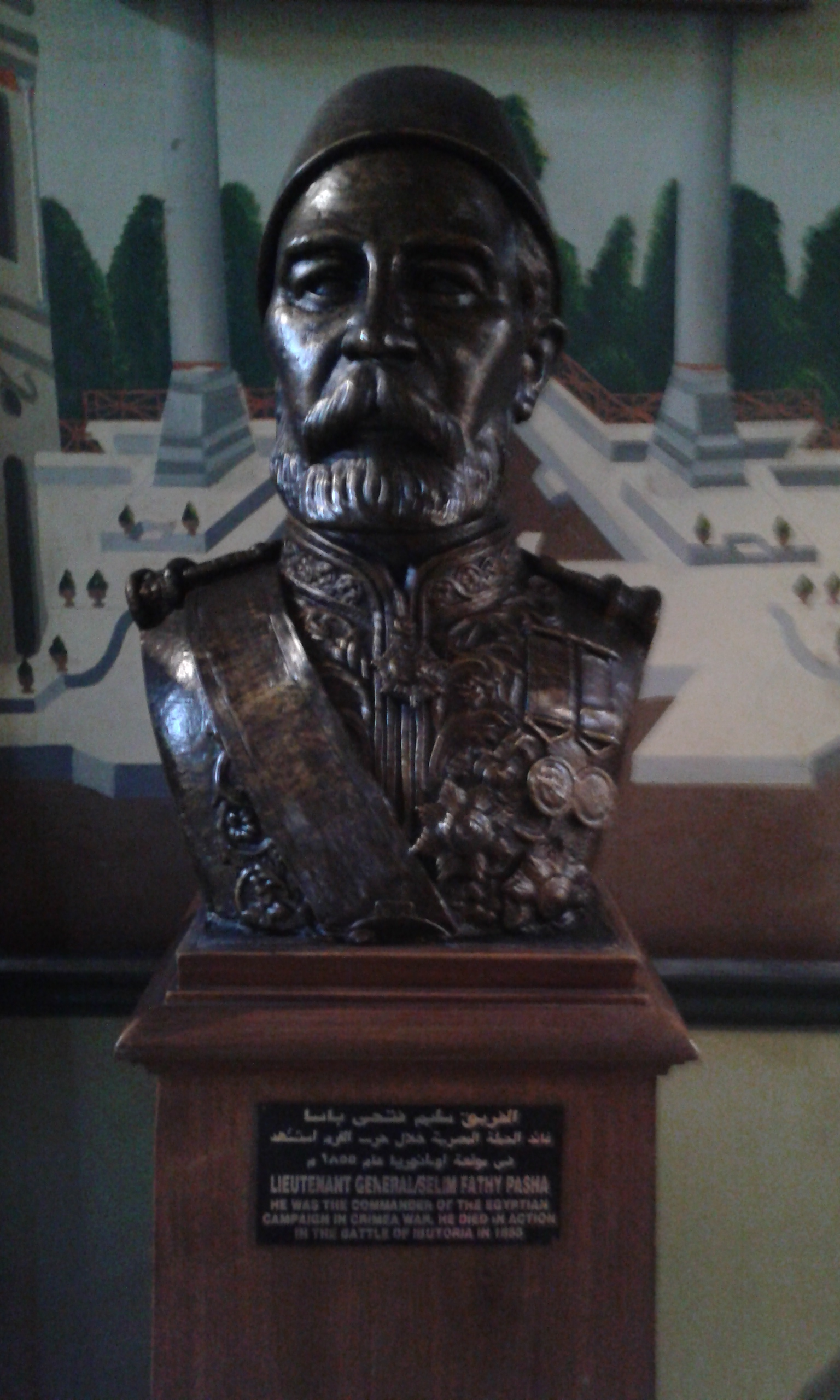 تمثال نصفي لسليم فتحي باشا معروض بالمتحف الحربي القومي بالقلعة - القاهرة